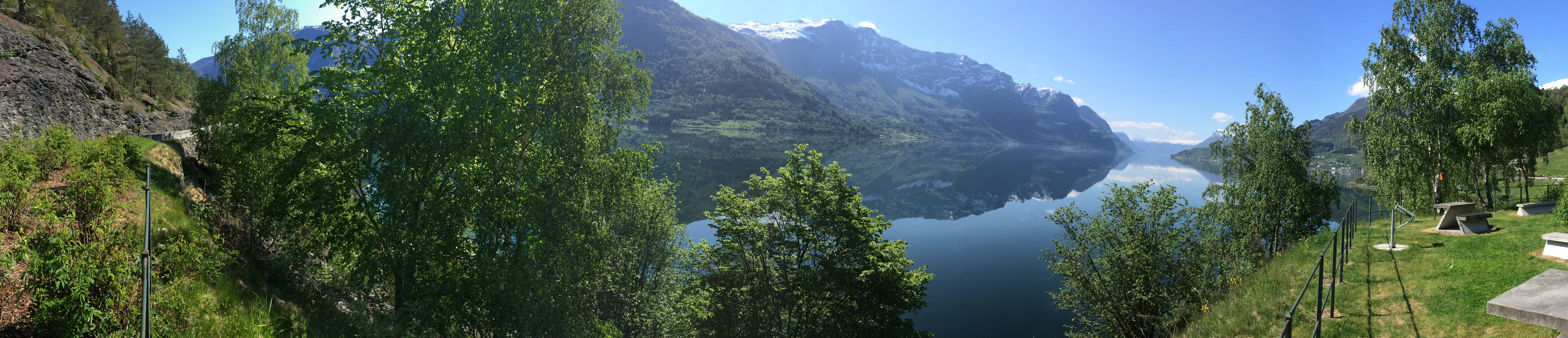 View from Lustrafjorden, Norway. Seen towards south. (iPhone panoramic photo, distortion may occur in details and continuity.)